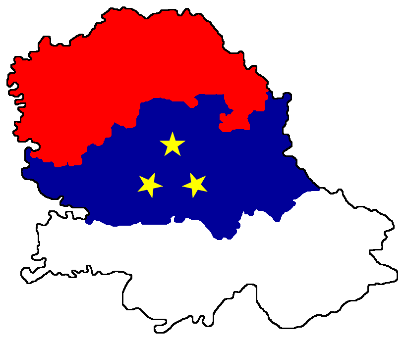 Map of Vojvodina with colours from Vojvodina flag - the map is artistically stylised so that it does not show modern southern border of Vojvodina, but historical one from 1848.